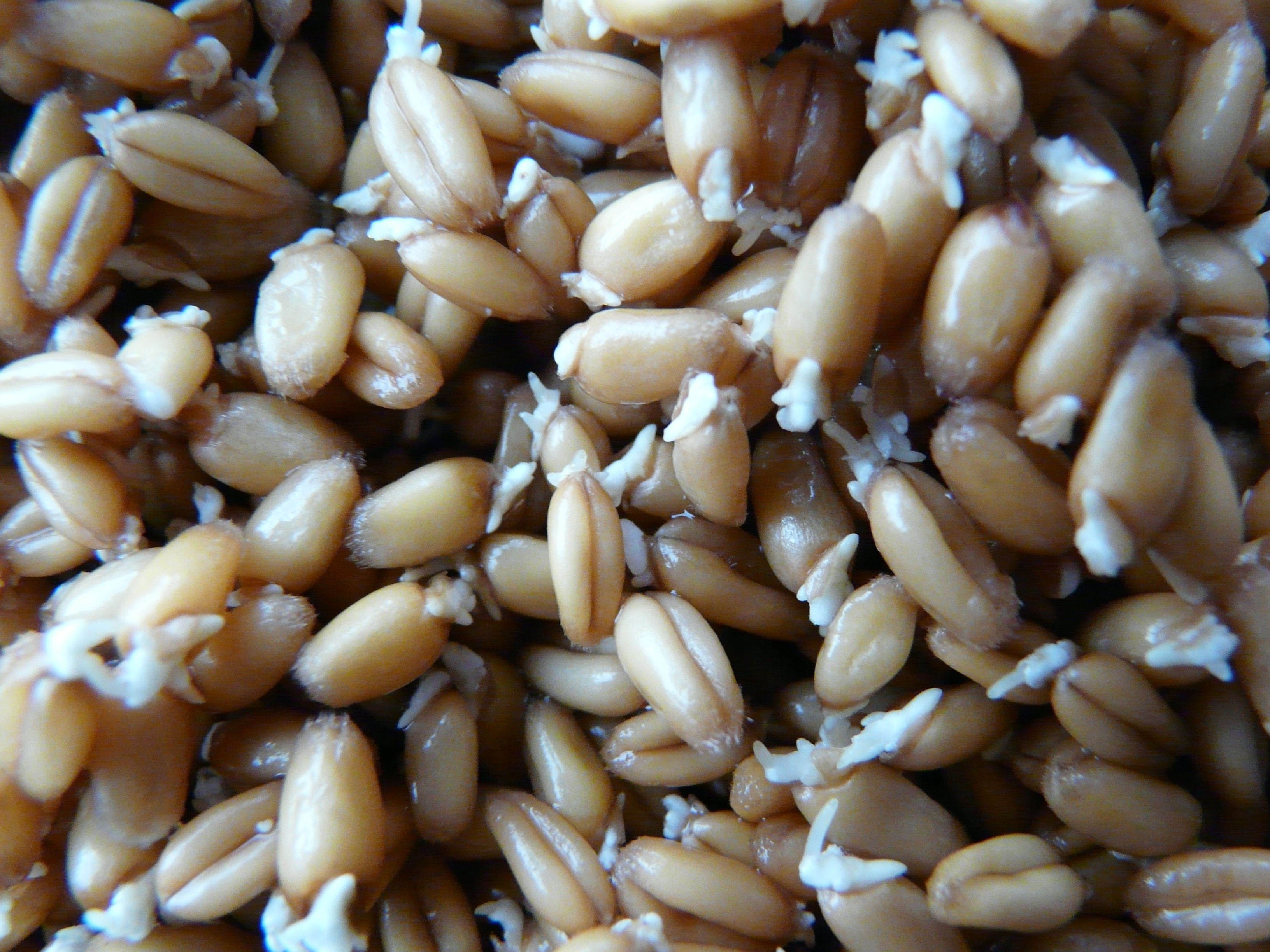 wheat beans